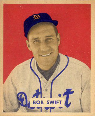 1949 Bowman baseball card of Bob Swift of the Detroit Tigers. PD-not-renewed.